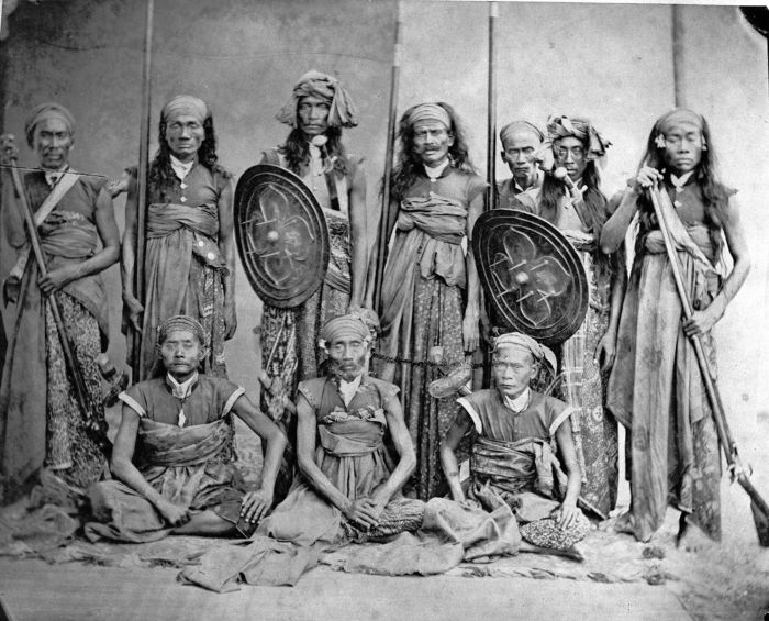 Foto. A group portrait of chiefs of the island of Lombok.